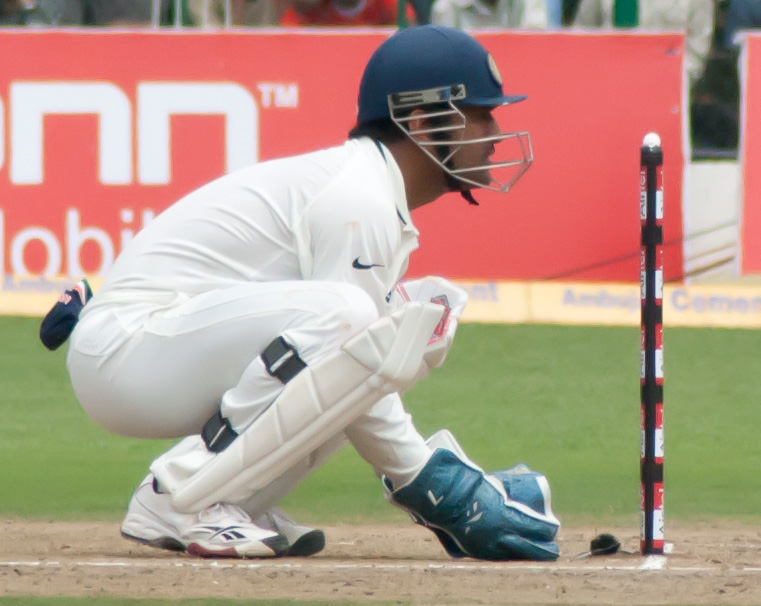 M S Dhoni keeping wickets on Day 2 of the Second Test of the Border Gavaskar Trophy 2010 - 11.